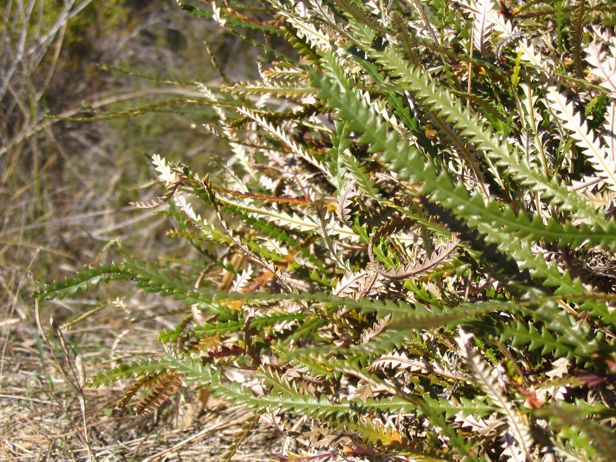 Closeup of leaves of Couch Honeypot (Banksia nivea), here labelled "Dryandra nivea" because the Dryandra genus had just been merged into Banksia and they hadn't updated their signs yet. In Kings Park, Perth, Australia.